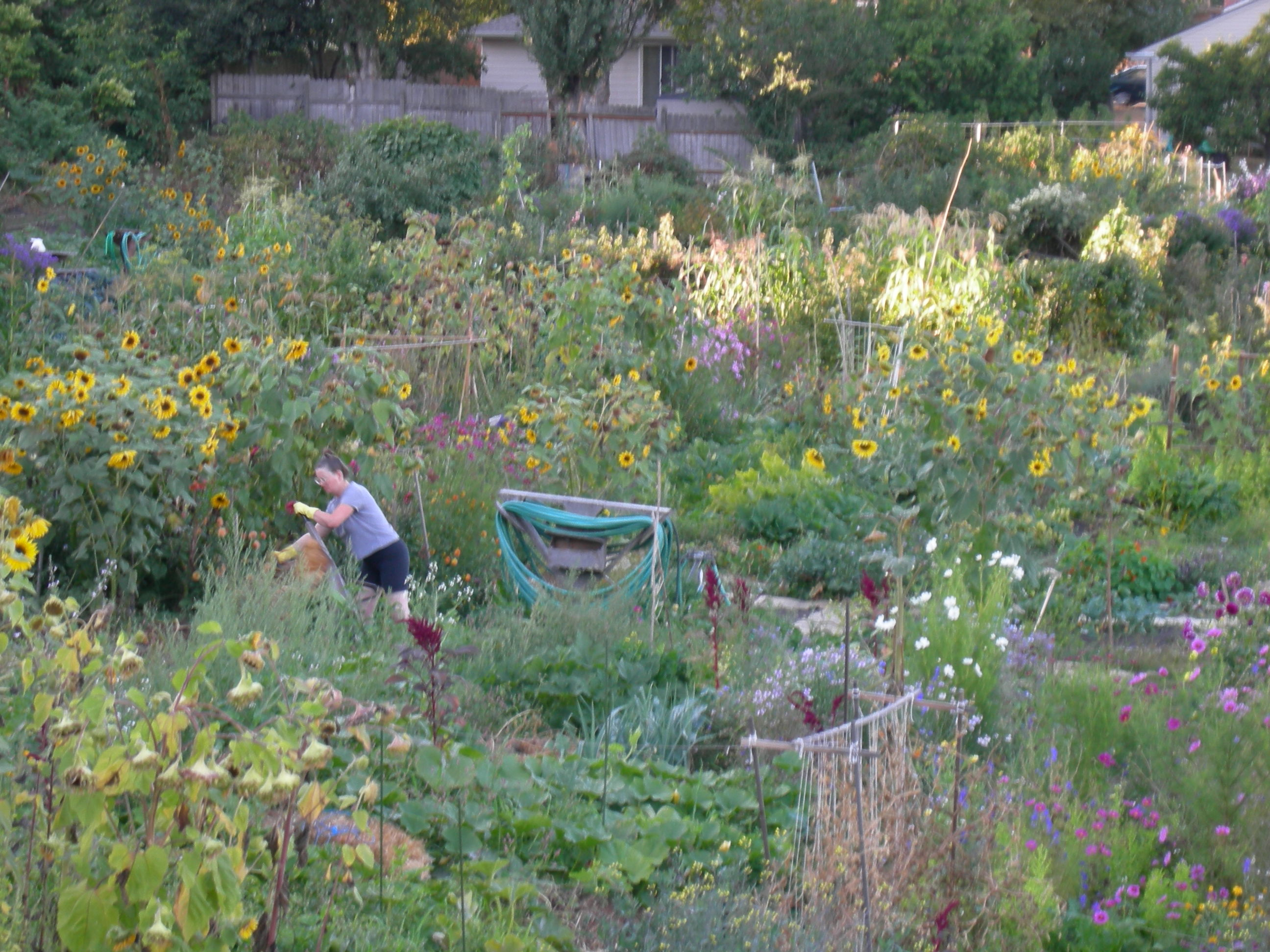 Picardo Farm, Wedgwood, Seattle, Washington. Seattle's first P-Patch community garden.